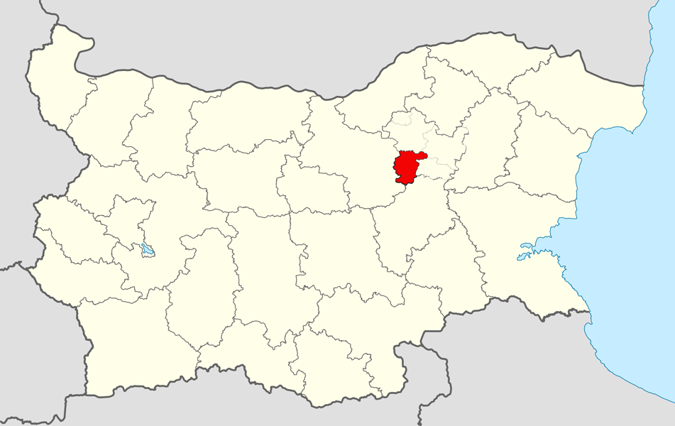 Location map of Antonovo Municipality within Targovishte Province, Bulgaria. Equirectangular projection, N/S stretching 130 %. Geographic limits of the map: N: 44.4° N S: 41.1° N W: 22.1° E E: 28.9° E